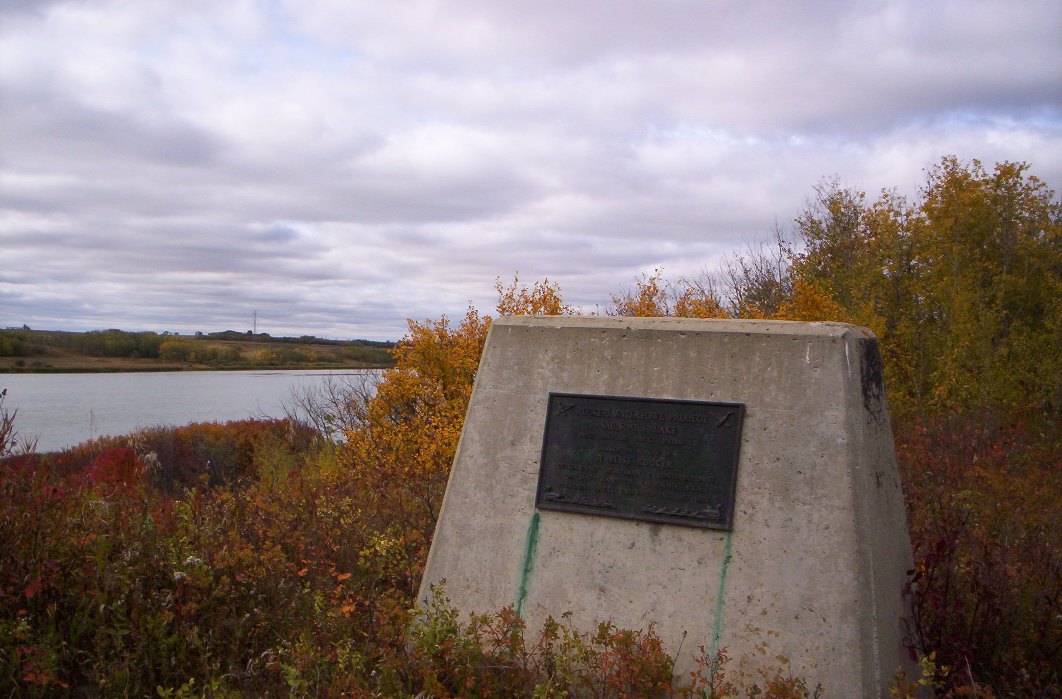 Waskahegan Trail, Saunders Lake Section, Alberta, Canada